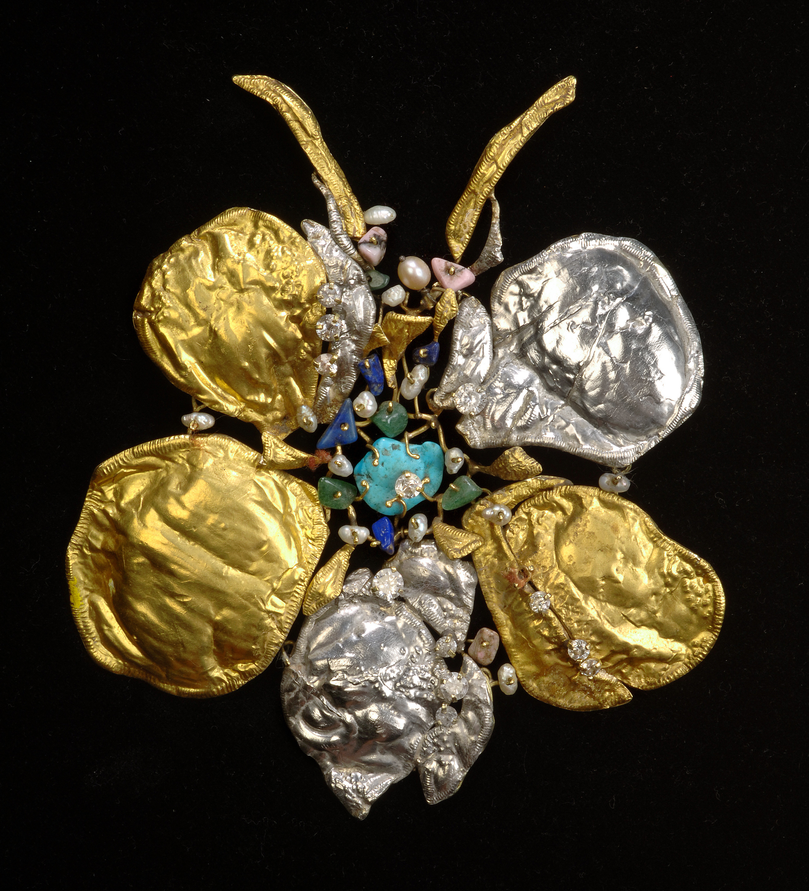 Magic flower of Eden 1981